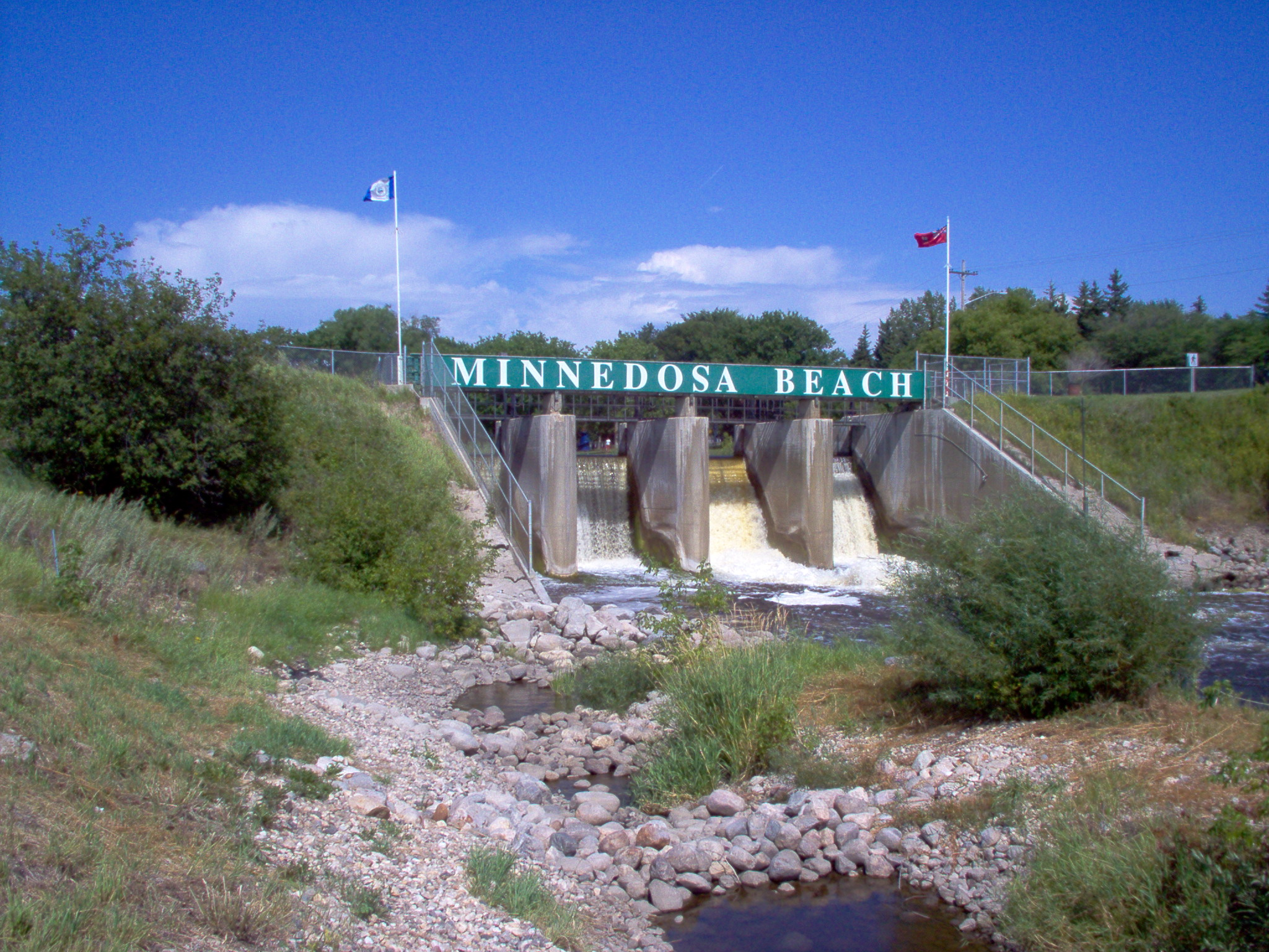 Front view of the dam on Minnedosa Lake in Manitoba, Canada